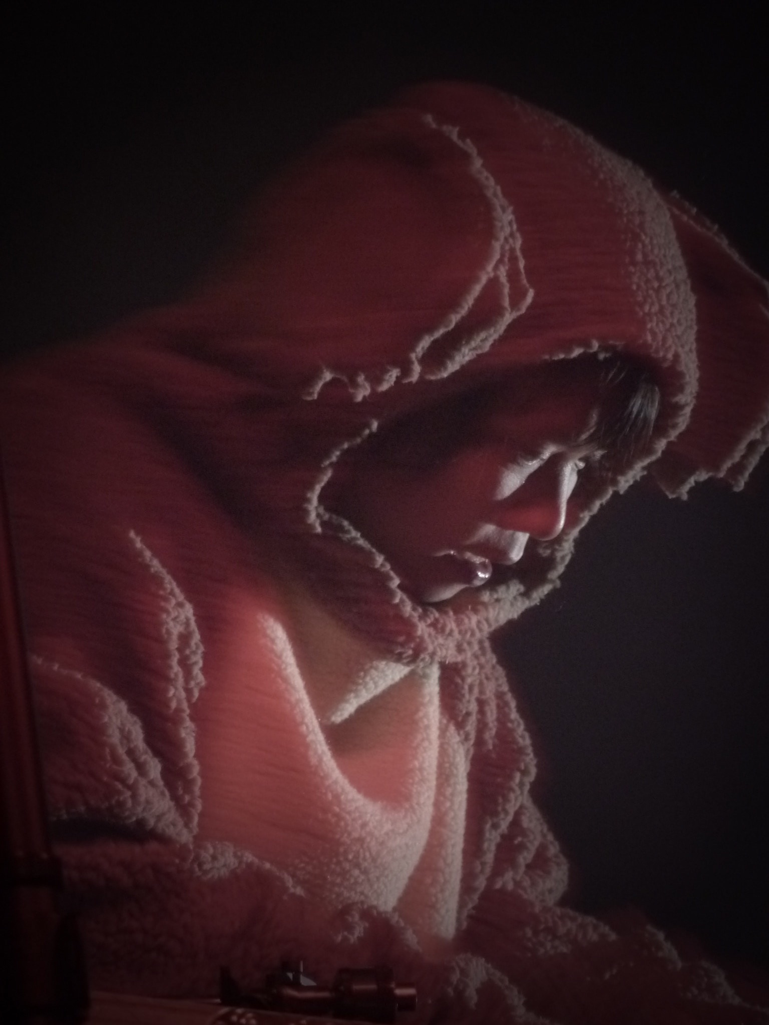 Kid Koala - Ninja Tunes XX @ AB